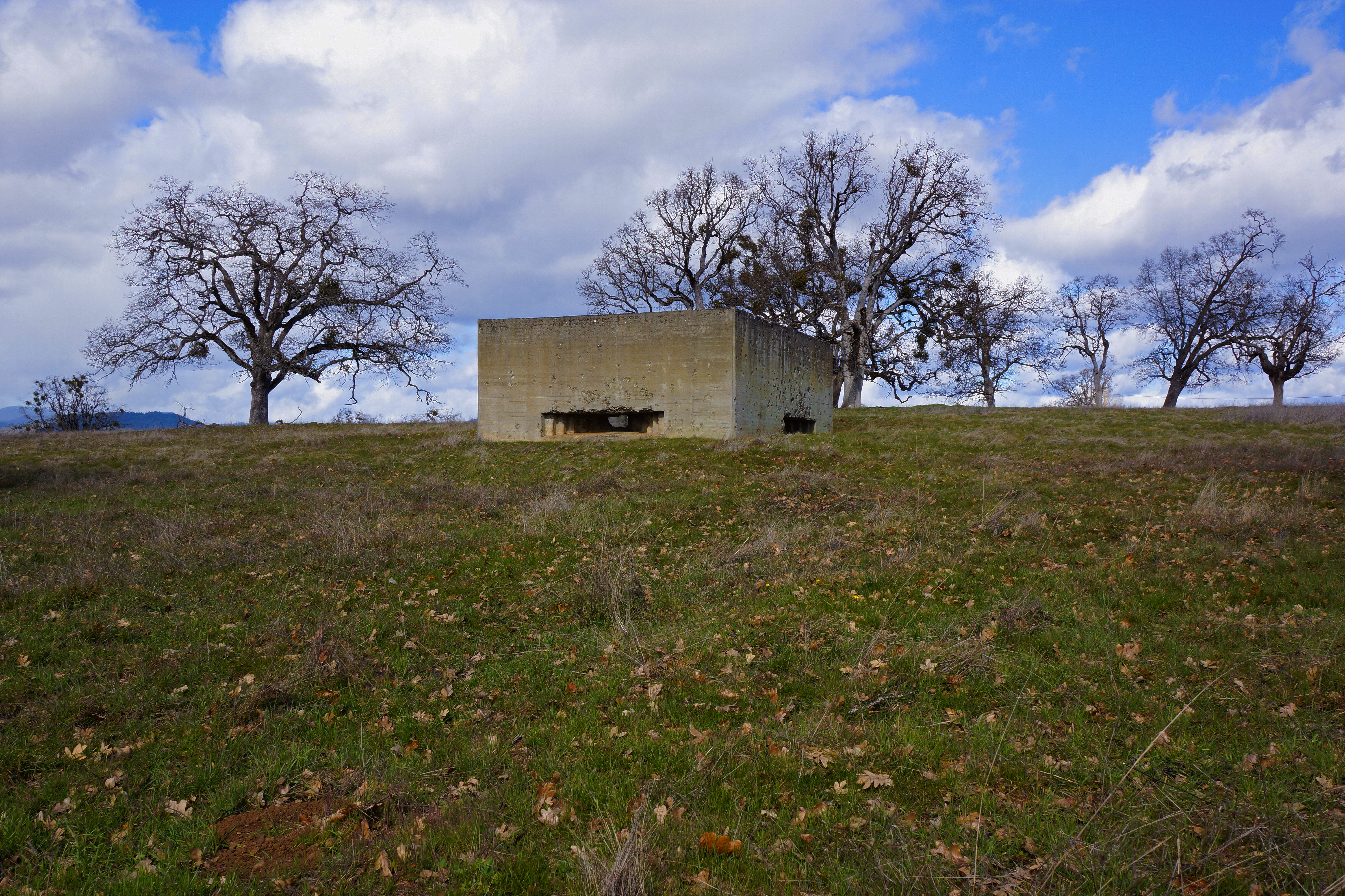 Camp White at Table Rocks During World War II, a portion of Upper Table Rock was part of 43,000-acre Camp George A. White, known as the “Alcatraz of Boot Camps” for its tough conditions. In 1941, Camp White occupied nearly 50,000 acres and contained nearly 40,000 people at its peak, more than 16 times the area and 3 times the population of nearby Medford. At its height, Camp White was the second largest city in the State of Oregon. The Beagle Range encompassed the east and north sides of Upper Table Rock and was used to practice infantry drills such as taking enemy strongholds. It included concrete pillboxes designed to simulate Nazi fortified coastal regions of Europe. Troops practiced manning and capturing the pillboxes, often with live ammunition. Tanks were used to fire on the pillboxes, and men inside were given the task of repelling their attack. Training in the Fortified Zone also included flame throwers, 105-millimeter artillery, simulated TNT, and electrically fired explosions. To find about more about Camp White and the Table Rocks area head on over to: Photos by BLM